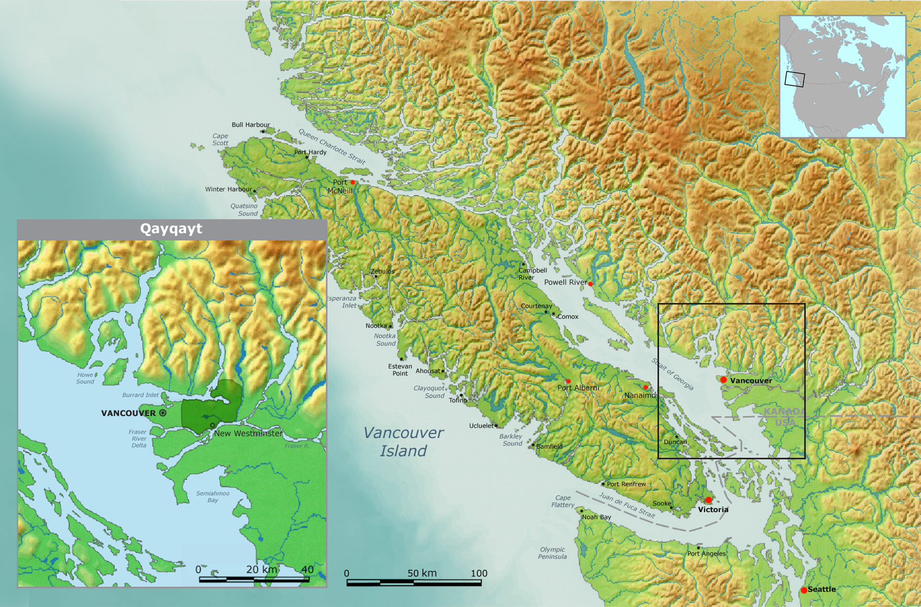 Map of traditional Qayqayt tribal territory.